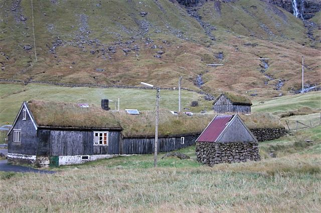 The old farm in Depil, Faroe Islands